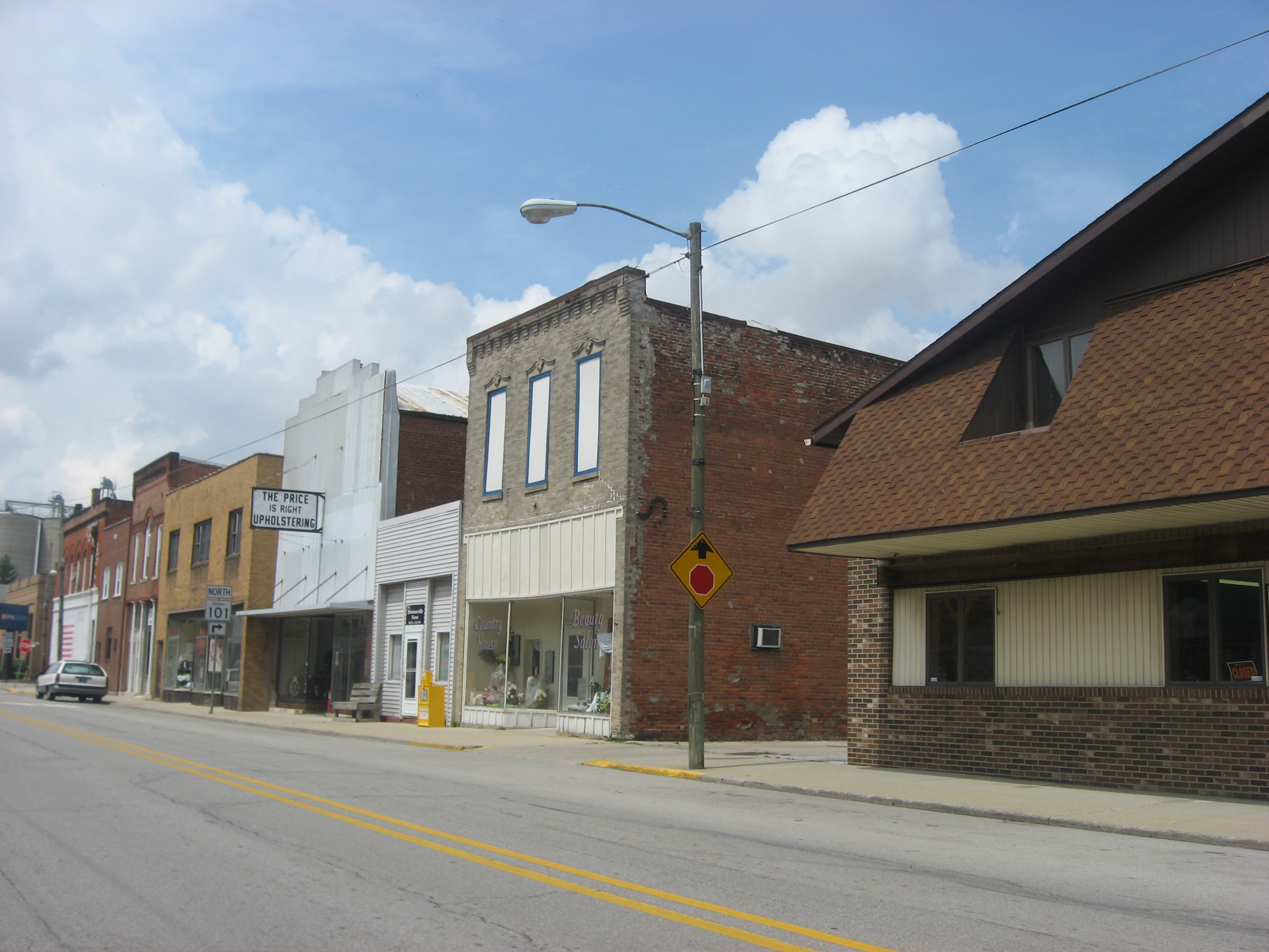 Buildings on the northern side of the 100 block of E. South Street (State Road 101) in Monroeville, Indiana, United States.